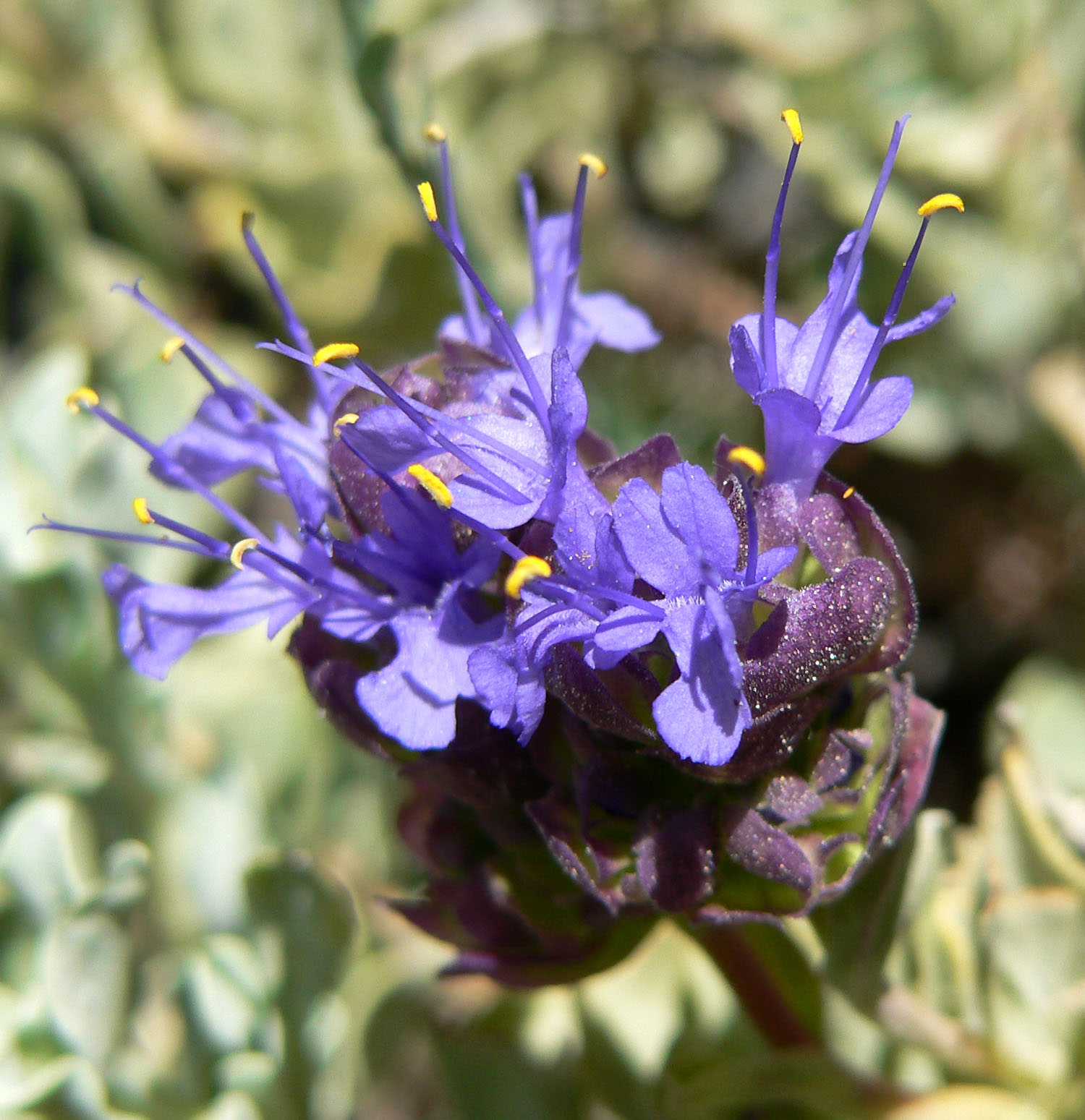 Salvia dorrii var. clokeyi alongside the Bristlecone Trail, Lee Canyon, Spring Mountains, southern Nevada (elev. about 2800 m)